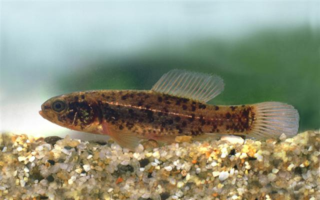 Umbra krameri photographed in Tiszafüred, river Tisza, Hungary.